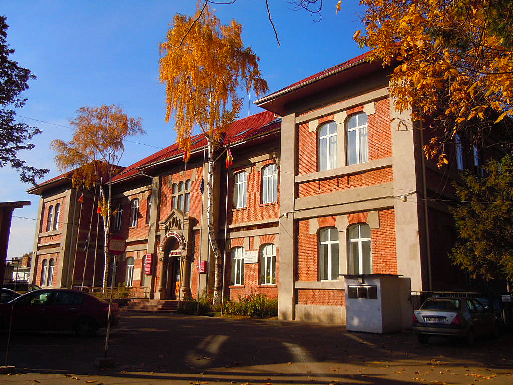 Charitable Social Institute „Diaconia“ , sixteenth century , Iaşi,Romania